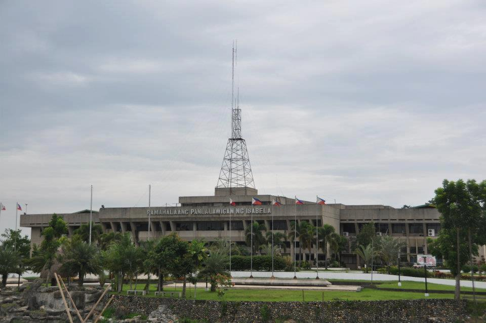 The Isabela Provincial Capitol during the Occular Inspection of Sky Park in 2012. Owned by Province of Isabela and it is public domain.